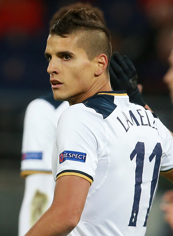 Lamela during CSKA Moscow - Tottenham in September 27, 2016.